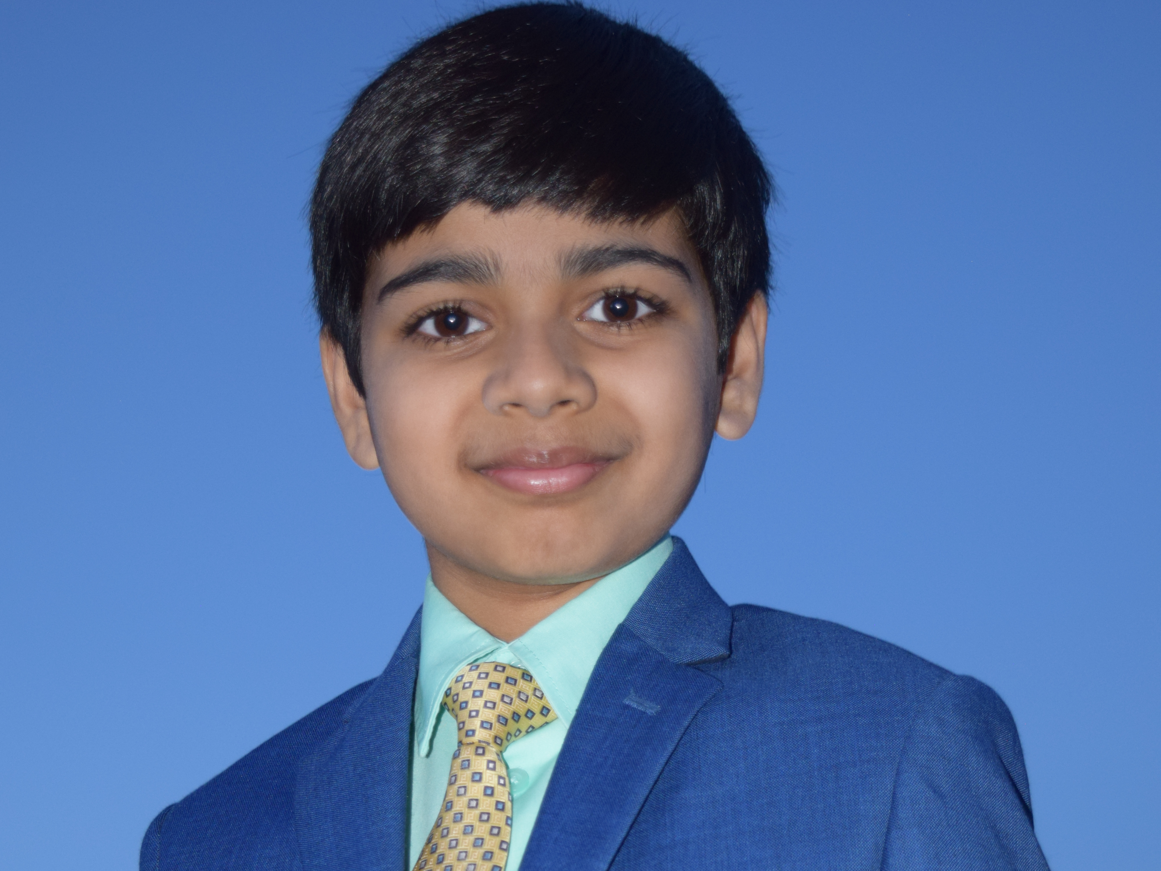 File photo of Akash Vukoti in June 23rd 2020